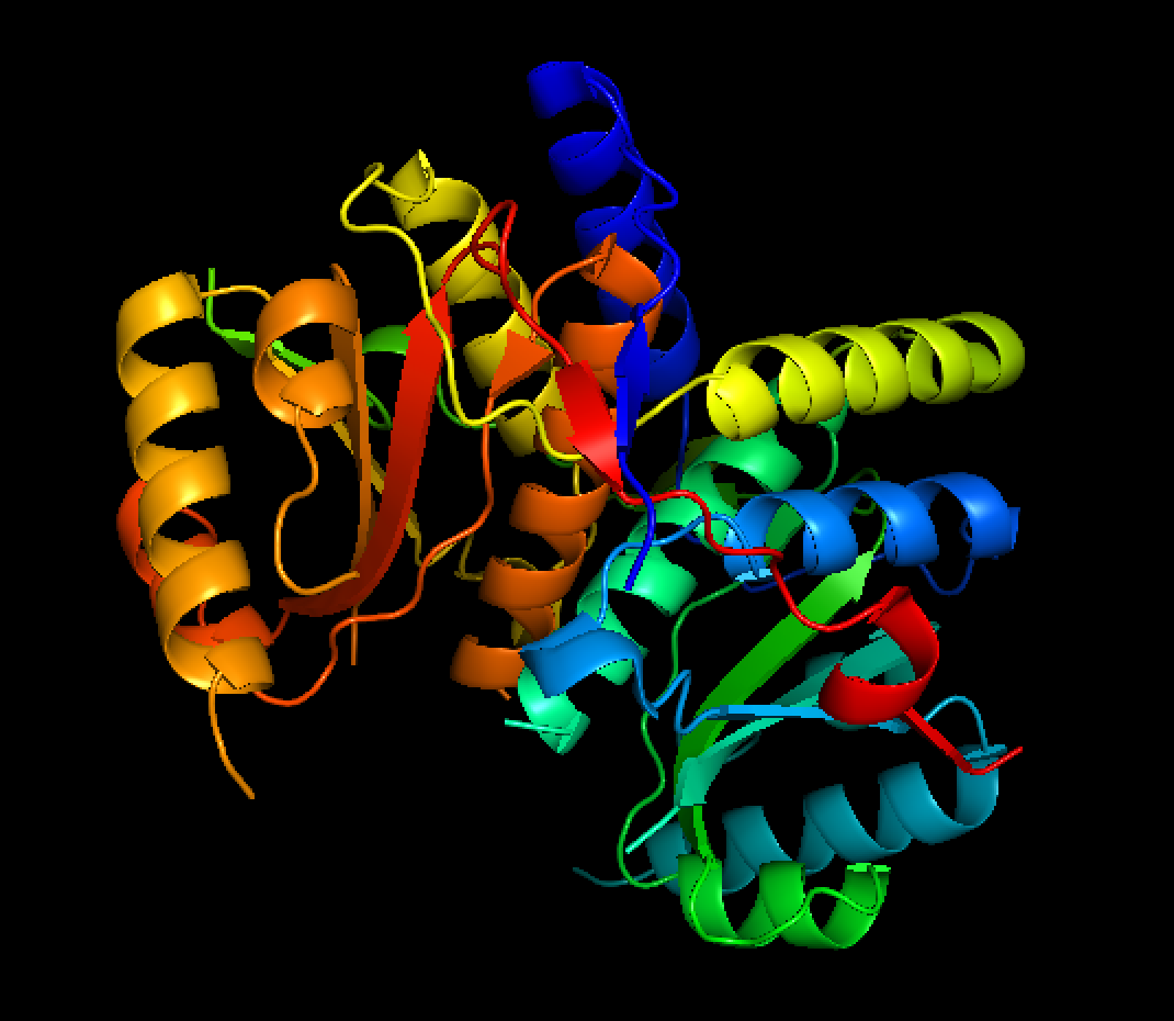 This is an image generated from Pymol using the PDB entry 4TTB.